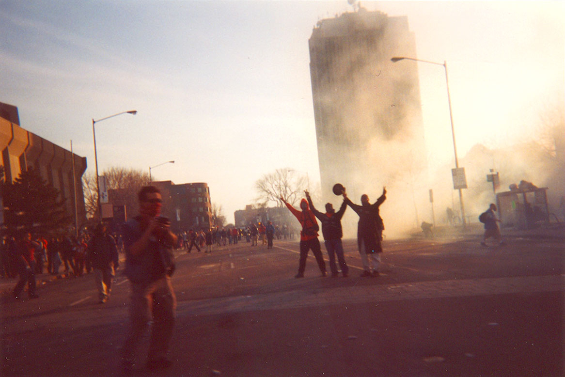 Protesters engulfed by tear gas during Summit of the Americas protests and demonstrations in Quebec City. Photo taken 21 April 2001 on René-Lévesque E. Blvd, near Turnbull Street. Man wearing a gas mask on the right-hand side.